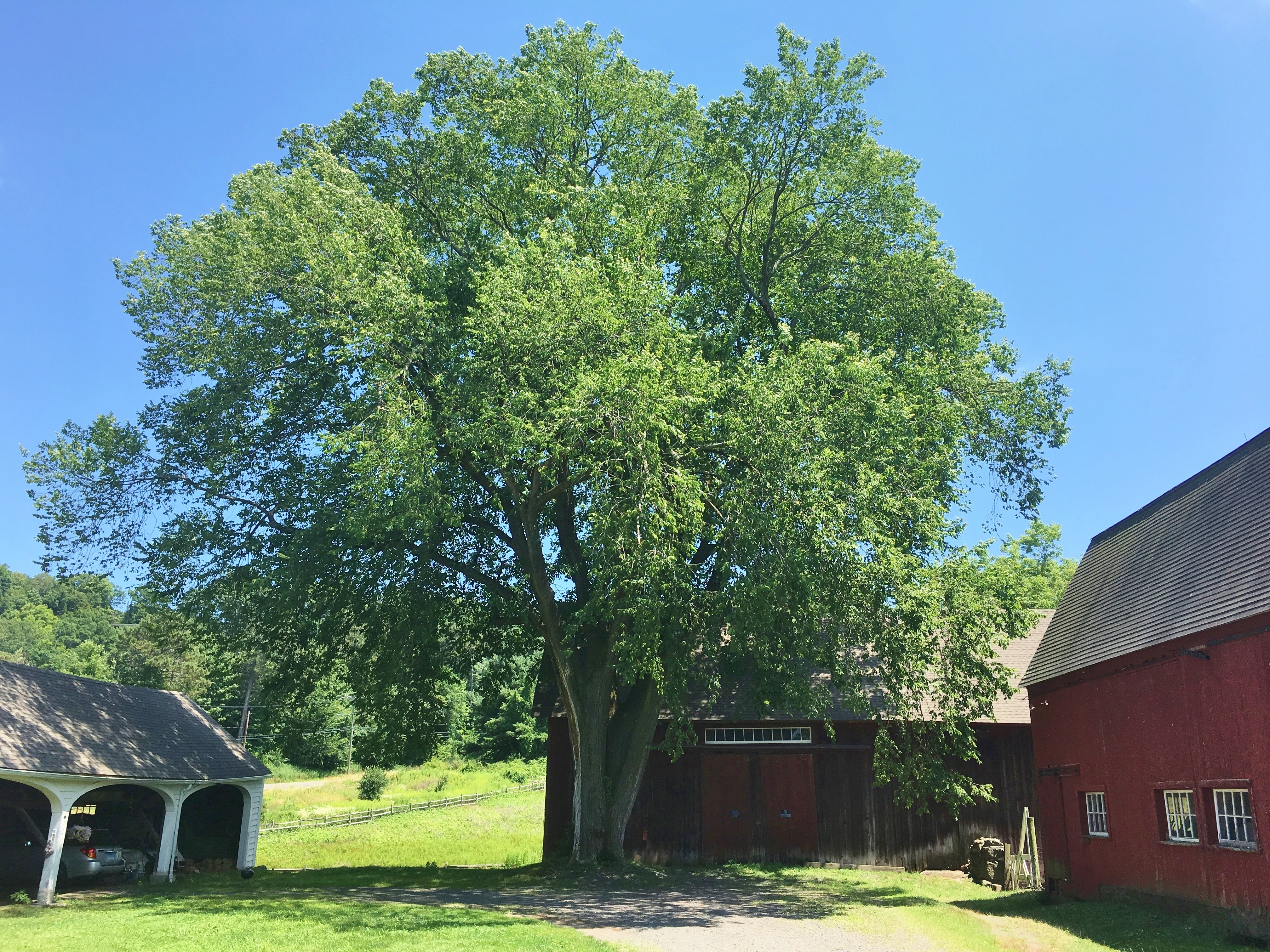 Photograph of an American elm tree, located at the Hill-Stead Museum in Farmington, CT (taken July 2019)